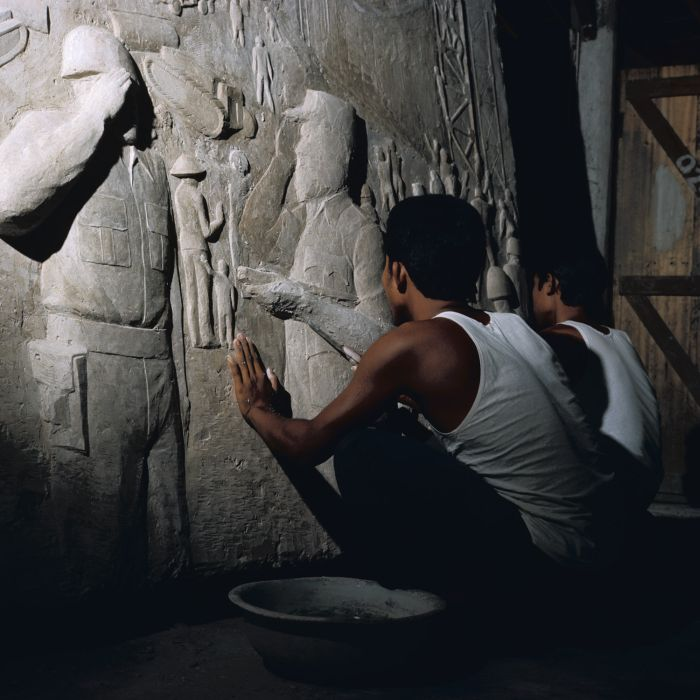 Students of the art academy ASRI (Akademi Seni Rupa Indonesia) getting sculpture lessons